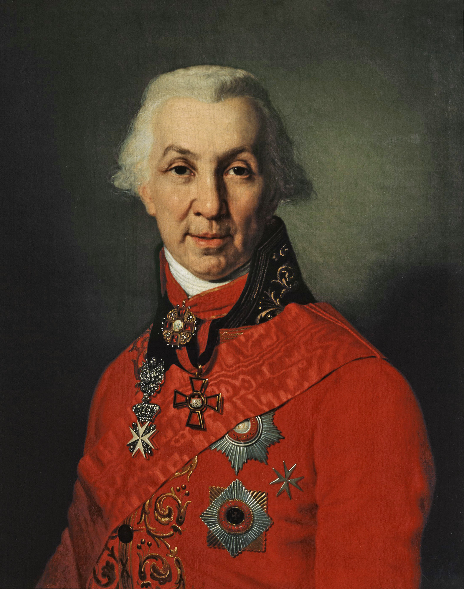 Портрет Гаврила Романовича Державина